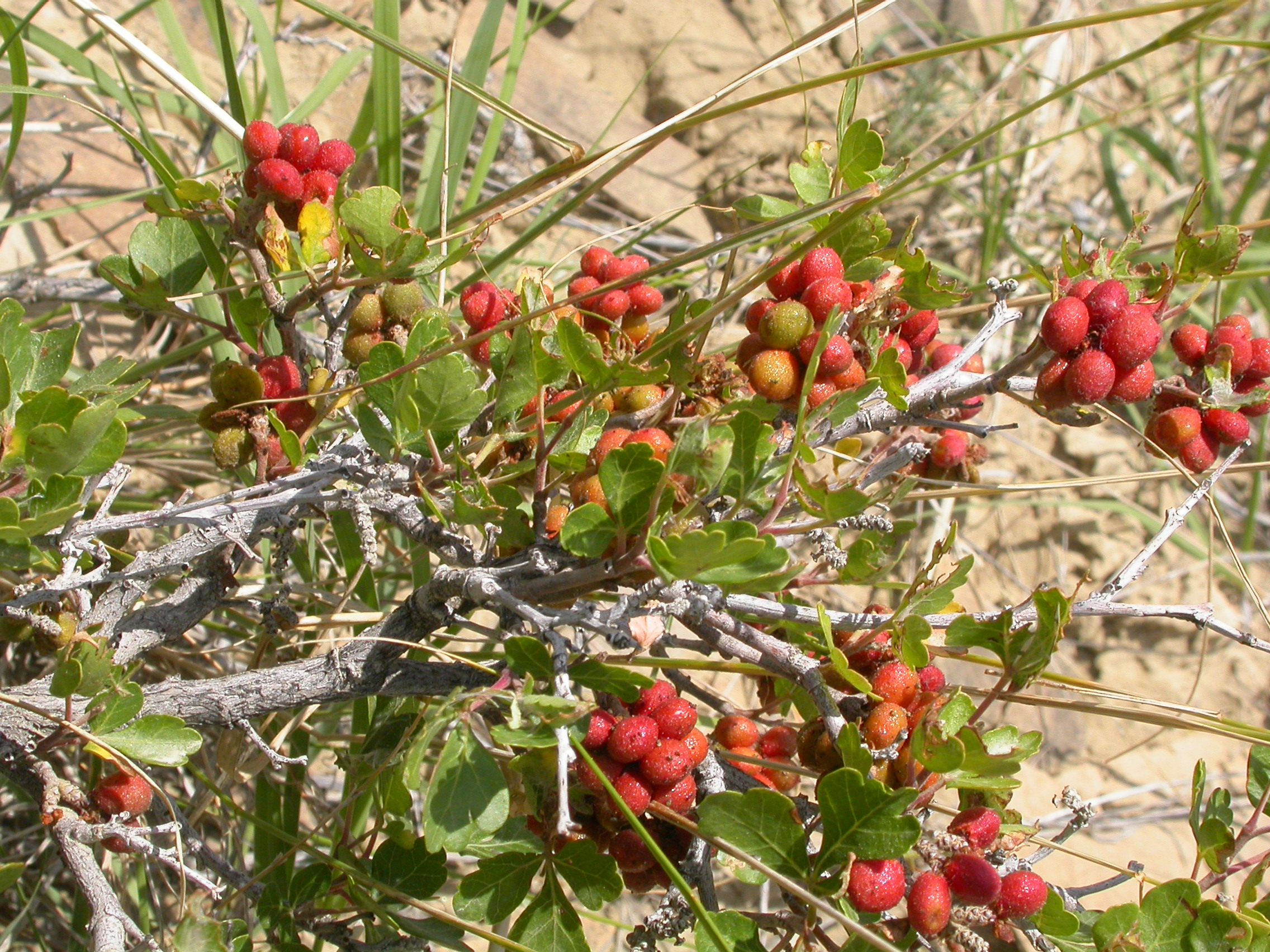 Rhus trilobata is common in dry open settings.